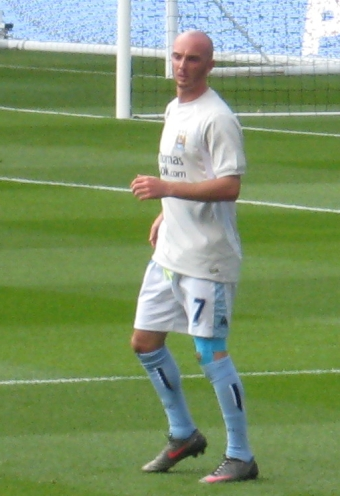 Manchester City midfielder Stephen Ireland during a pre-match warm-up